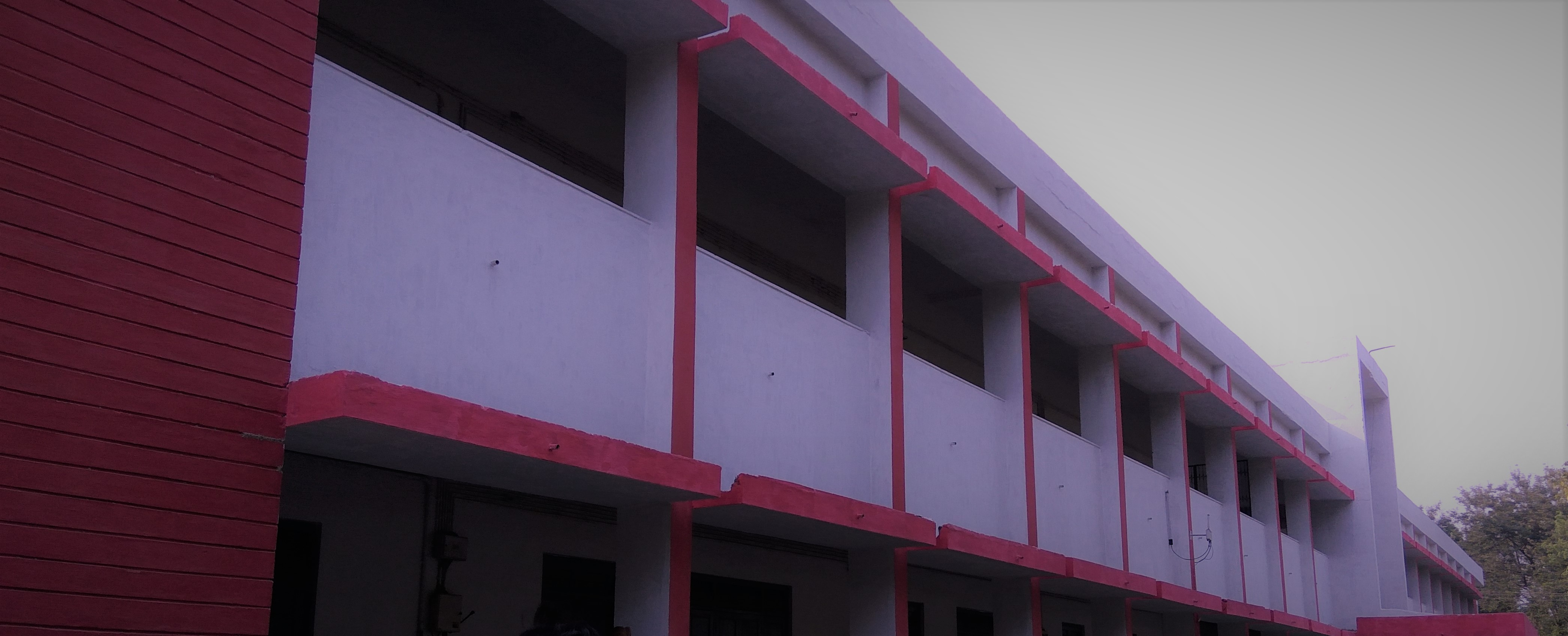 Pharmacy